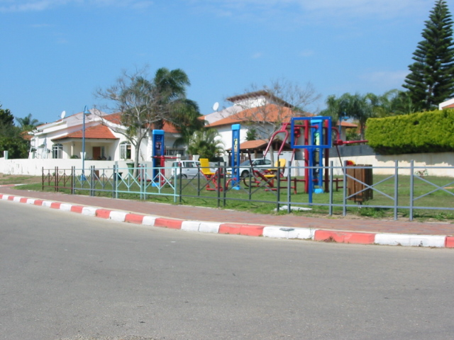 Playground in Ge'a